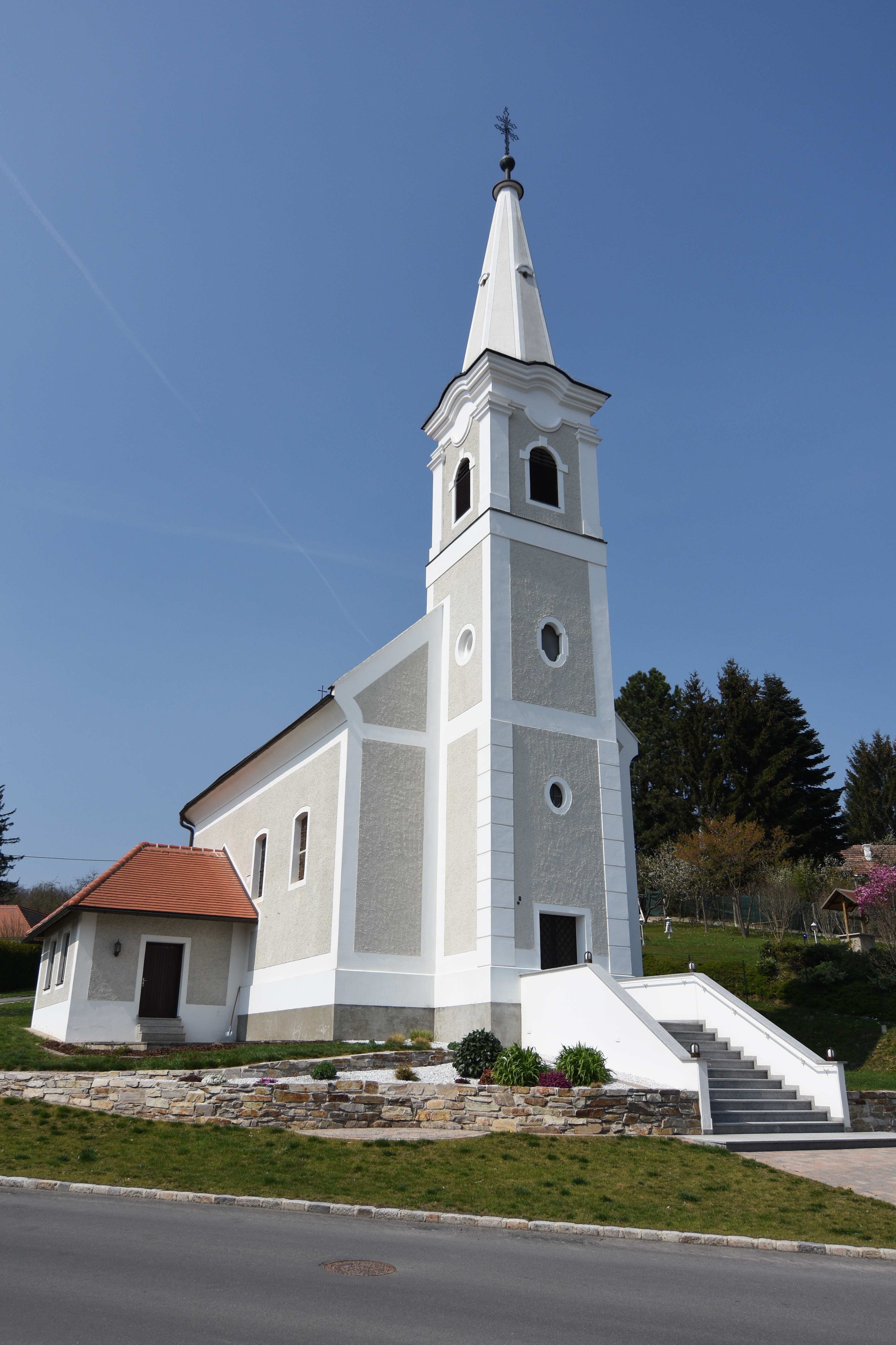 Church Bubendorf im Burgenland